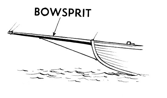 line art drawing